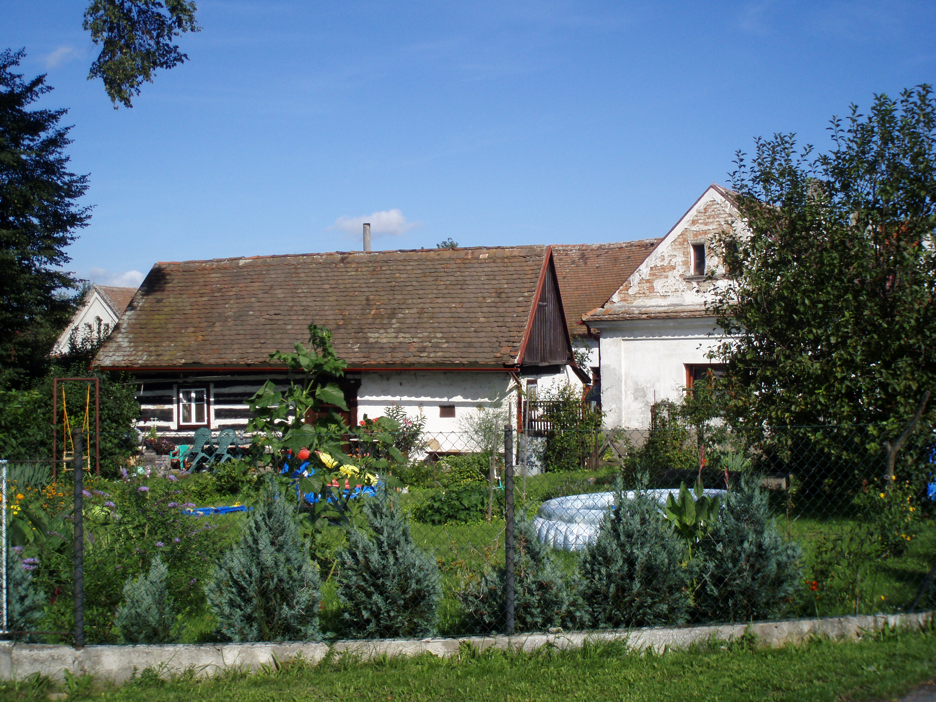 Timber house in Svinárky (Hradec Králové, Czechia)